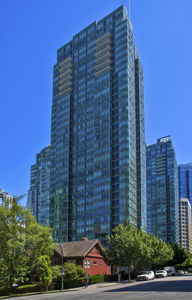 Residences on Georgia residential tower in Vancouver.